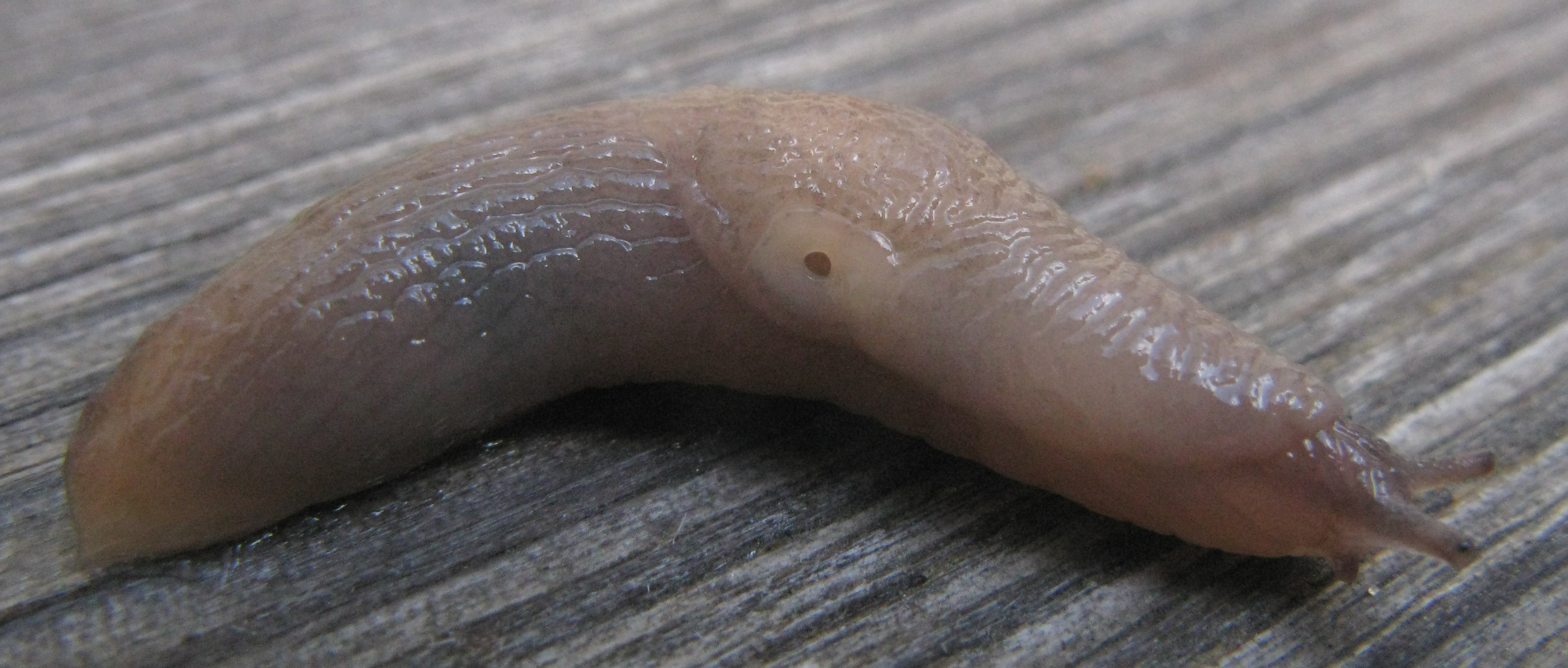 The terrestrial slug Deroceras invadens. Confirmed as this species by observing mating behaviour (J.M.C. Hutchinson, Görlitz). Collected by B. & M. Schlitt, 13.11.11, Roche del Crasto, 38° 00.961' N 014° 44.484' E, c. 1200 m a.s.l. Photographed Görlitz 9.12.11 by J.M.C. Hutchinson.